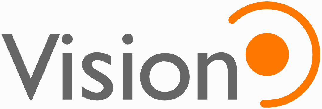 This is the official logo of the Vision activity of ESTIEM.